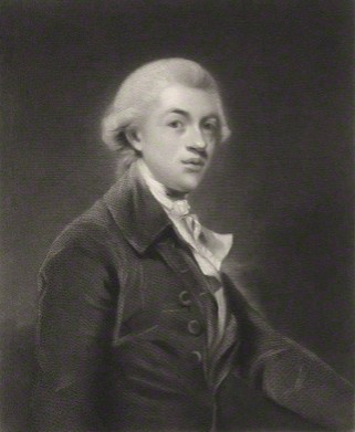 Portrait of Robert Lovell Gwatkin (1757–1843), English landowner.